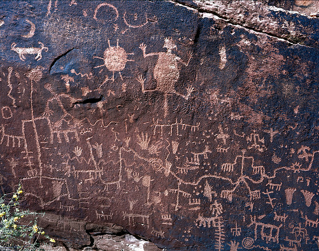 Some of the ancient Pueblo petroglyphs, in the Newspaper Rock Petroglyphs Archeological District, located within Petrified Forest National Park in Apache County, Arizona, SW United States. The many petroglyphs at the site have been declared a historic district, and are listed on the National Register of Historic Places in Petrified Forest National Park.